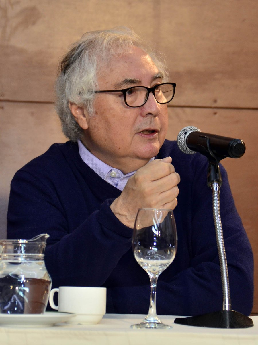 Manuel Castells in La Paz Bolivia